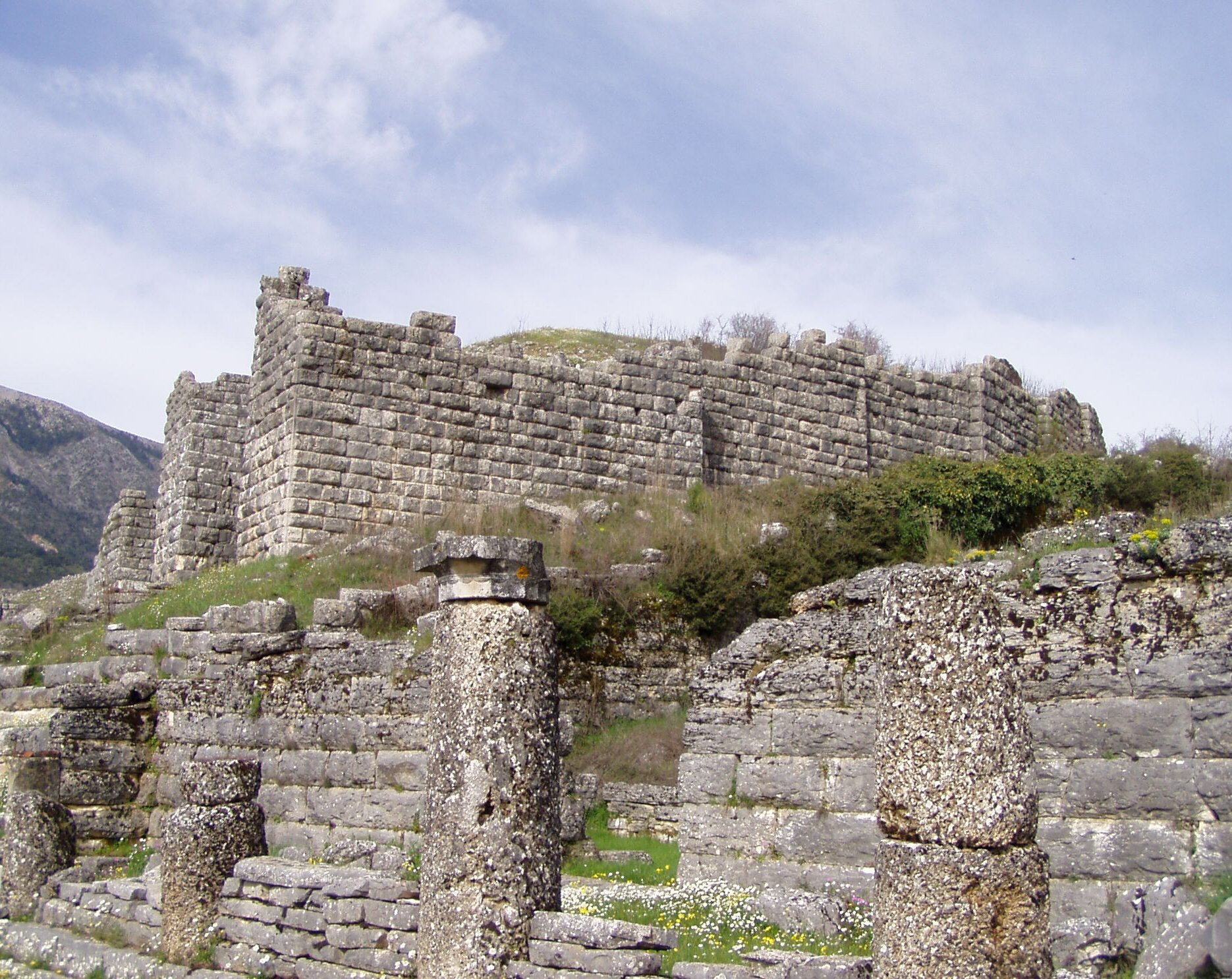 This is the Bouleuterion in Dodona.